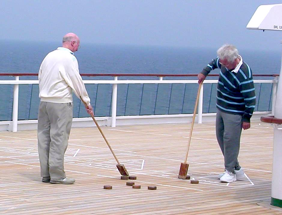 Deck shuffleboard being set up on MV Aurora. Cropped from original photograph taken on 27th April 2007.